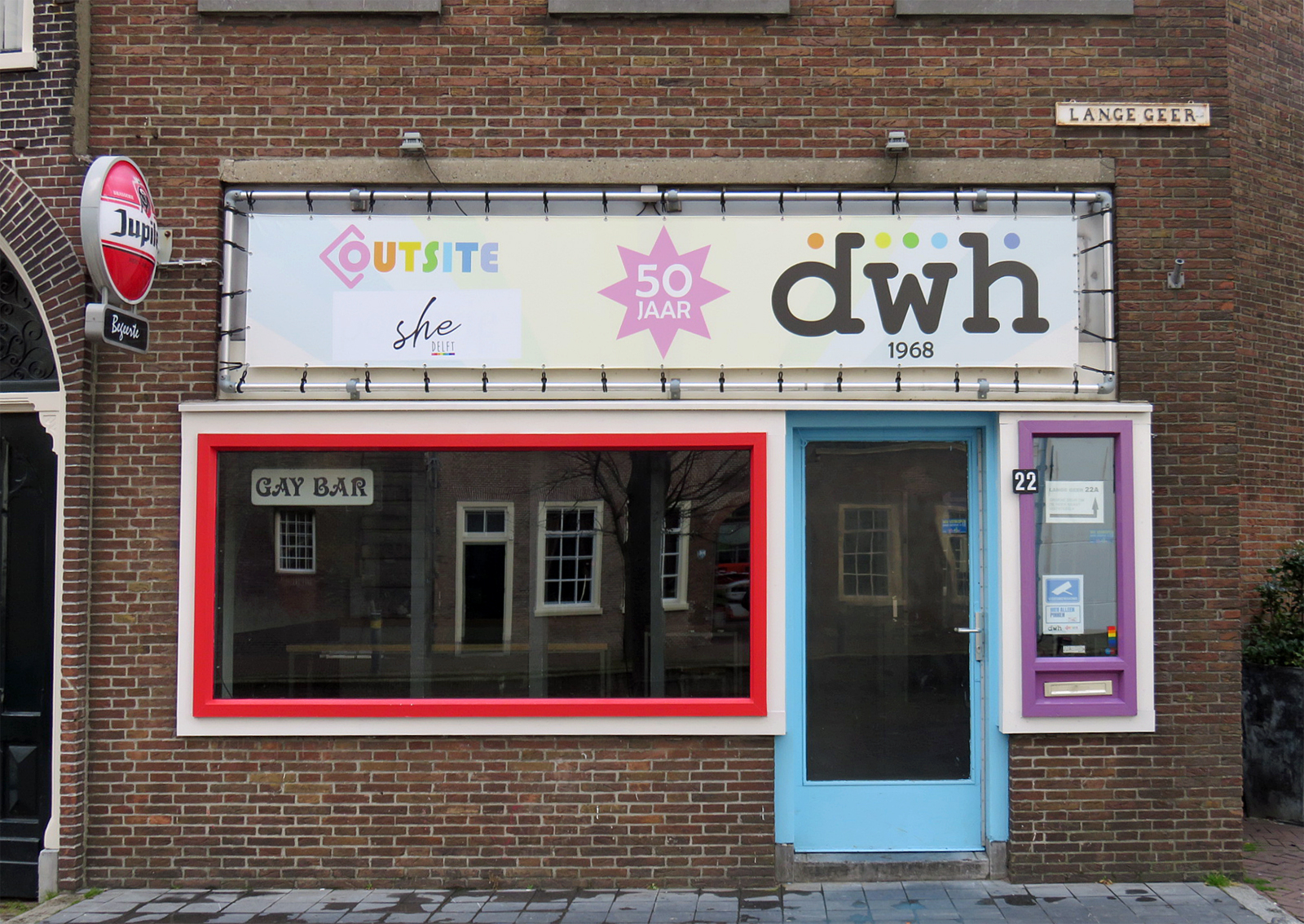 The bar, dancing and community center of the local LGBT organization Delftse Werkgroep Homoseksualiteit (DWH, est. 1968), which is located at Lange Geer 22 in Delft since 1985.